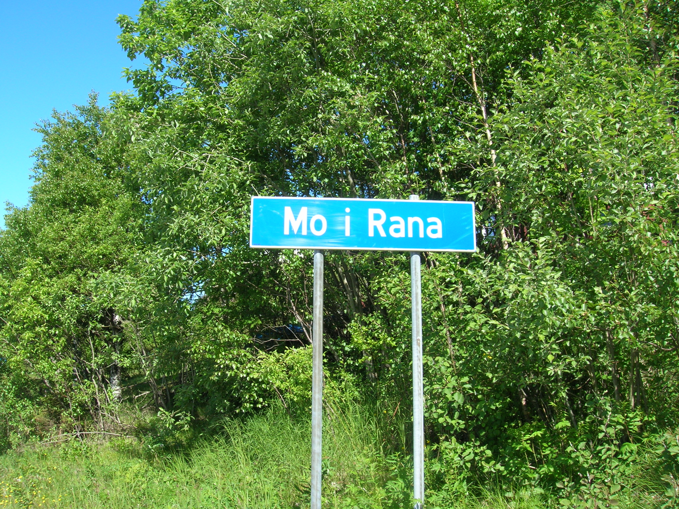 The road sign in the Langneset, marking the beginning of Mo i Rana, Rana municipality, Nordland, Norway. Photo June 17, 2007 with a Nikon Coolpix 5600 5,1 Megapixel camera.